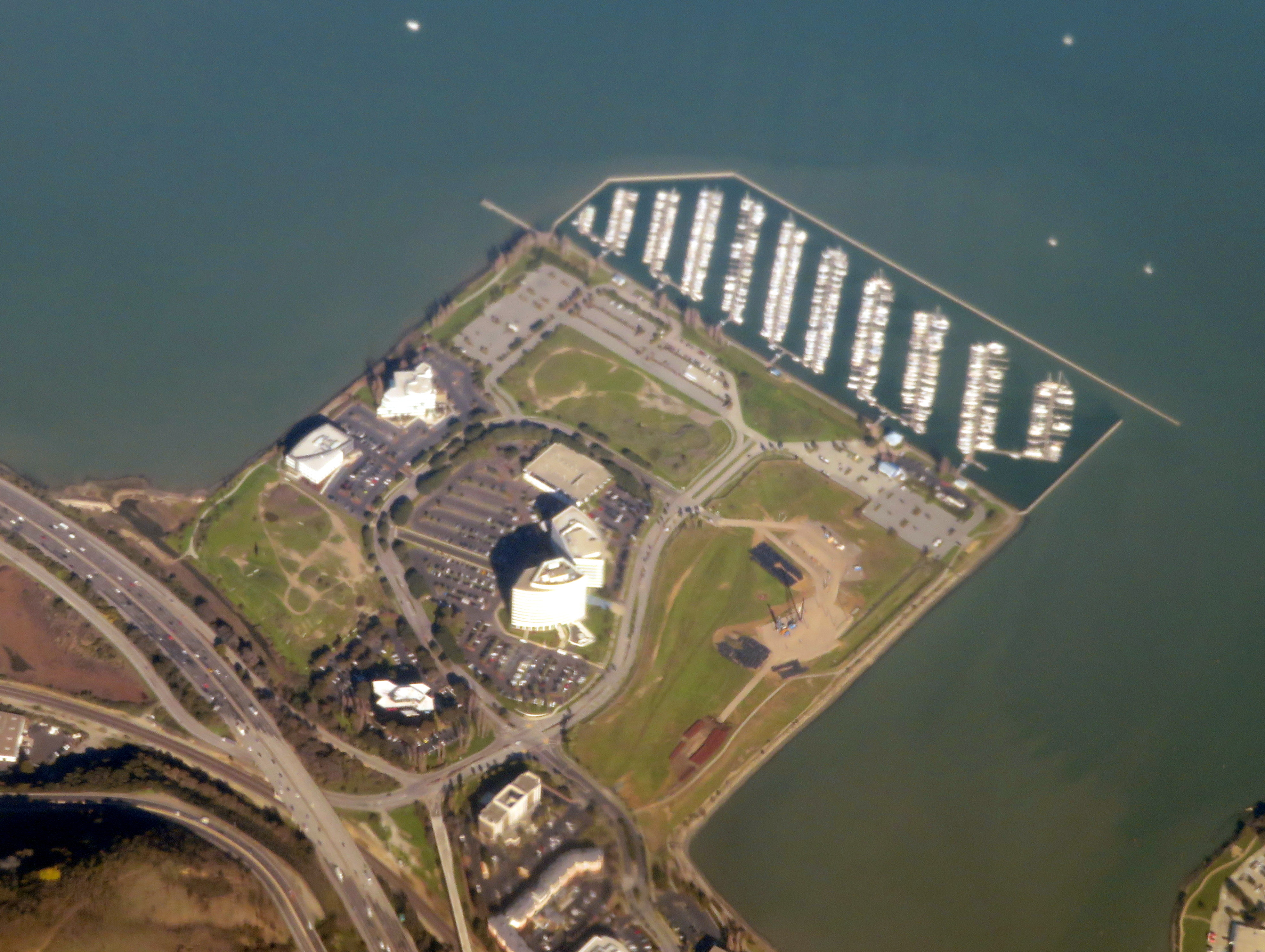 Aerial view of Sierra Point in February 2018